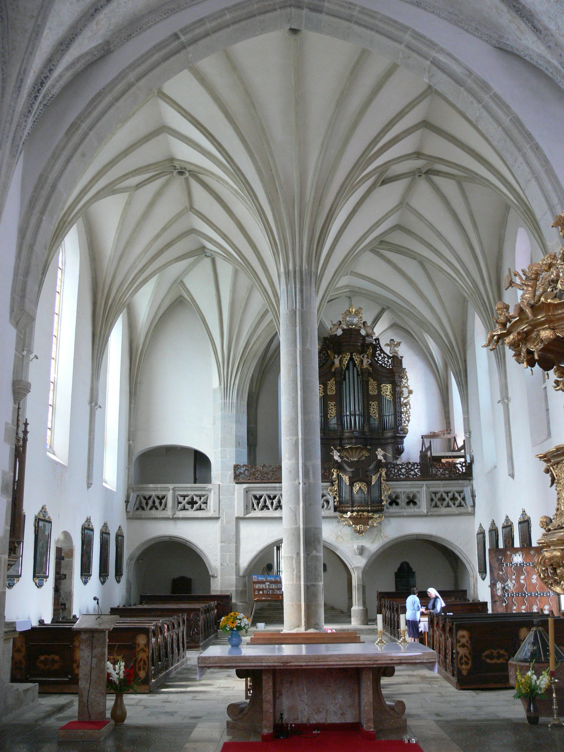 Mary Assumption church in Kájov, Czech Republic. Gothic nave.